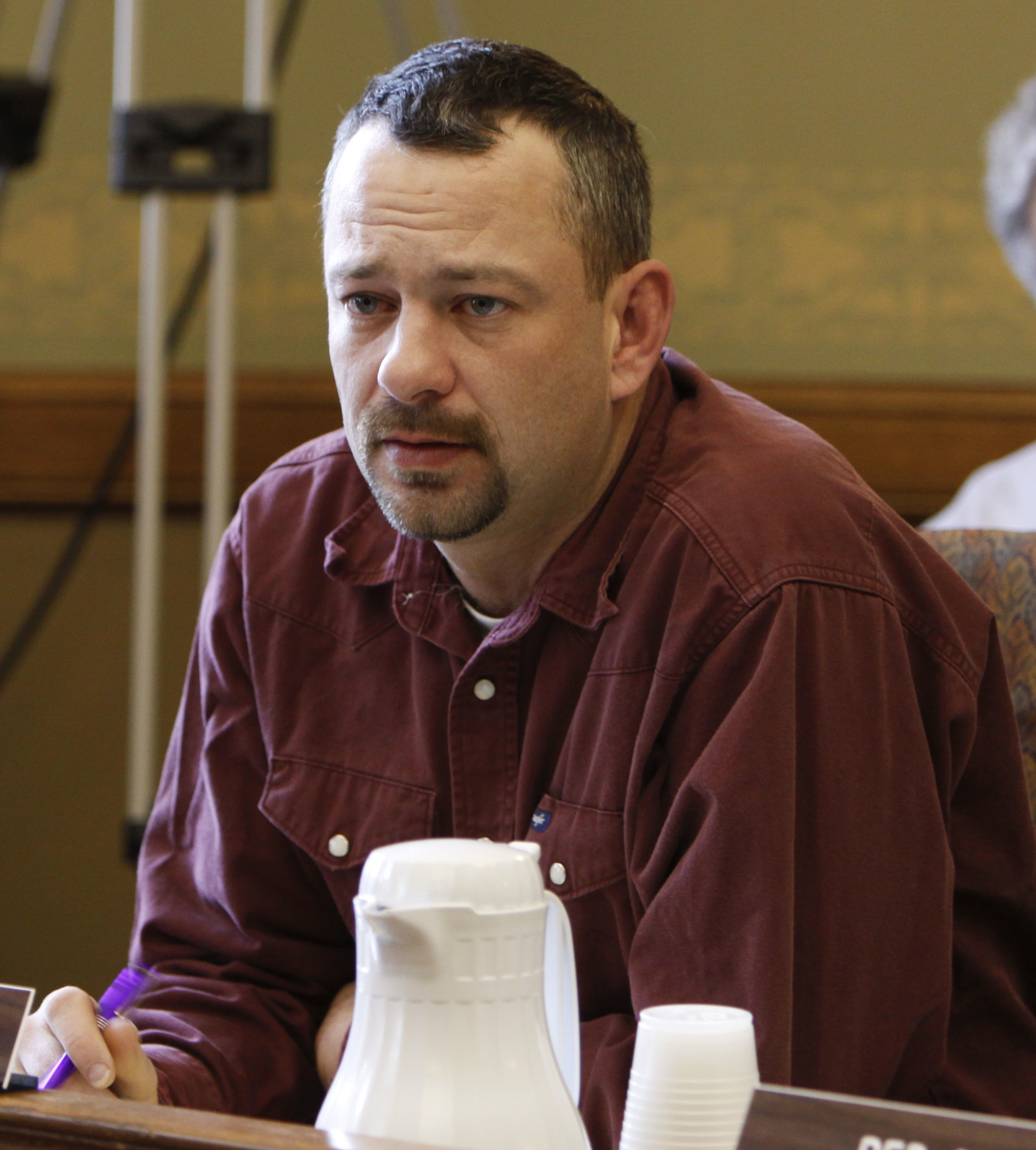 Former Wisconsin State Assemblyman Phil Garthwaite